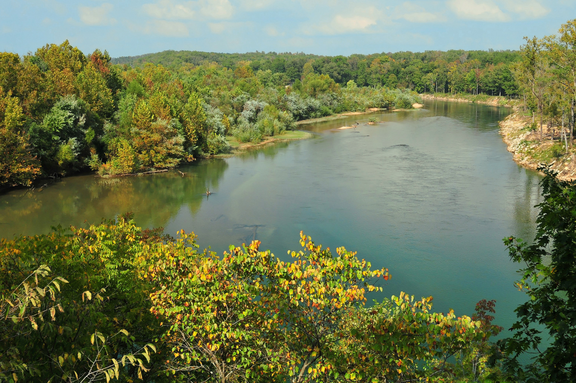 The Current River in Missouri, United States.